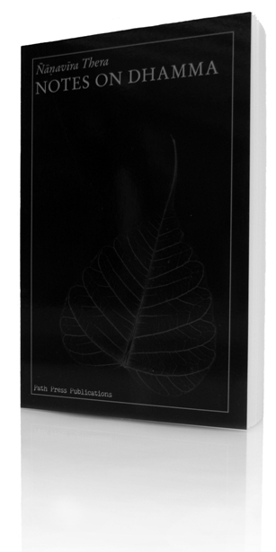 A new edition of Ven. Nanavira Thera's Notes on Dhamma restored from the original manuscript.